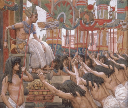 Joseph Dwelleth in Egypt, c. 1896-1902, by James Jacques Joseph Tissot (French, 1836-1902), gouache on board, 9 1/16 x 10 7/8 in. (23.2 x 27.7 cm), at the Jewish Museum, New York